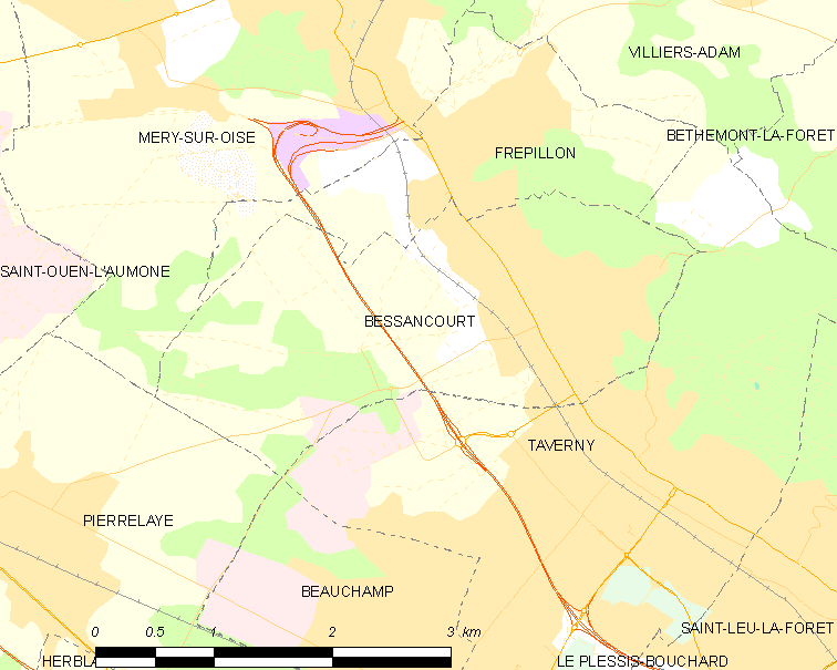 Map of French municipality Bessancourt